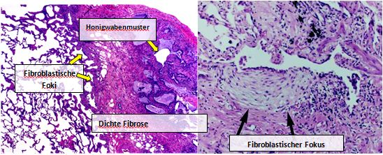 Photomicrograph of usual interstitial pneumonia in IPF